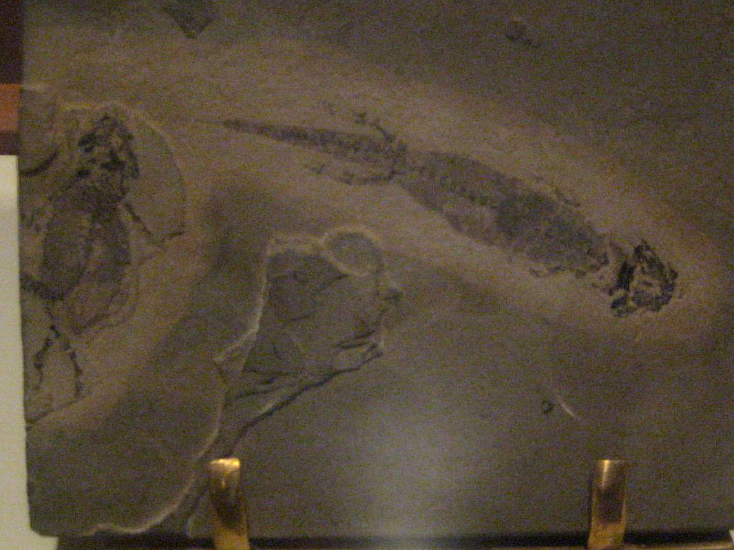 Pelosaurus liticeps, immature Amphibians, 270 million years old Permian